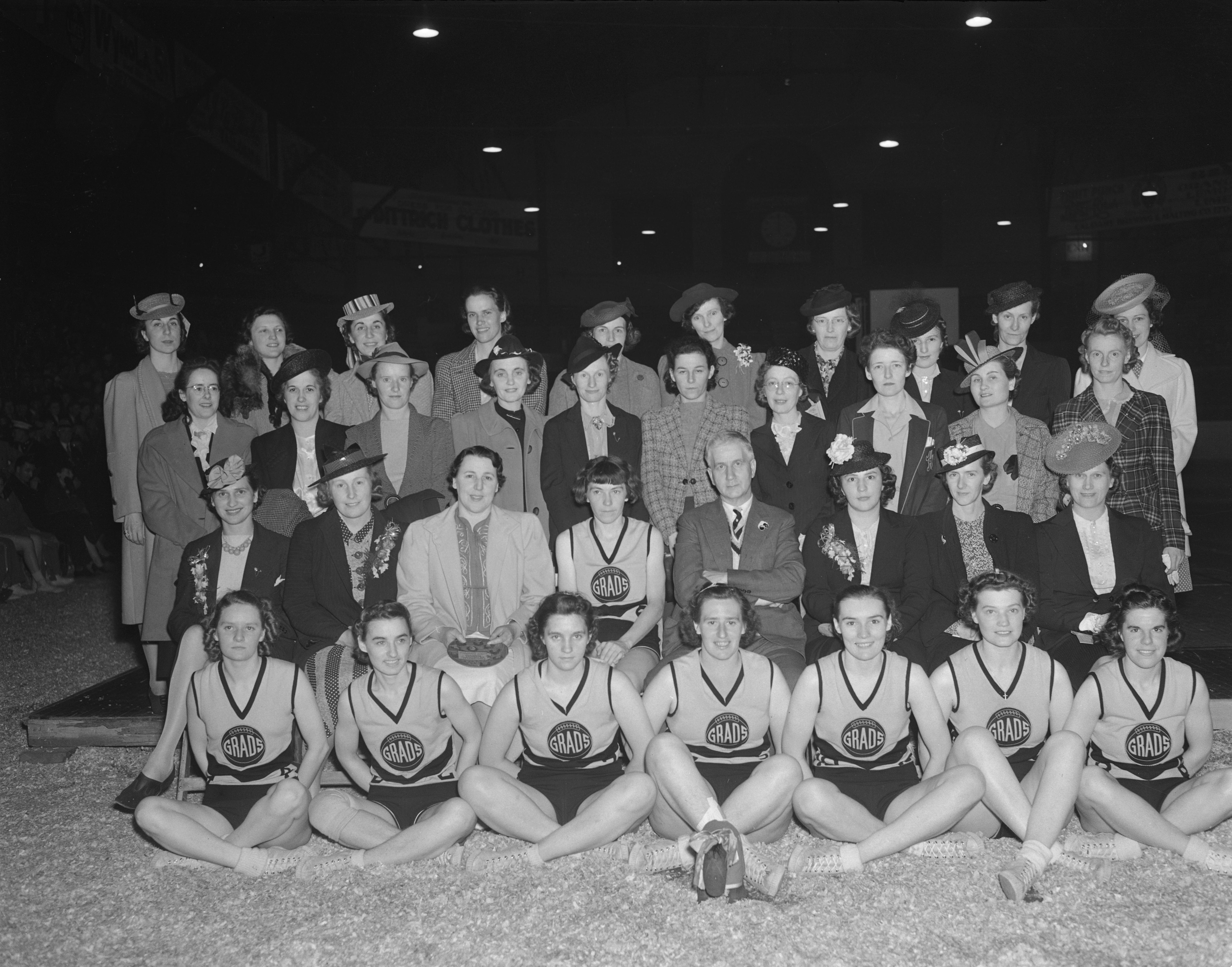 From the Kensit Studios fonds, KS35.1.